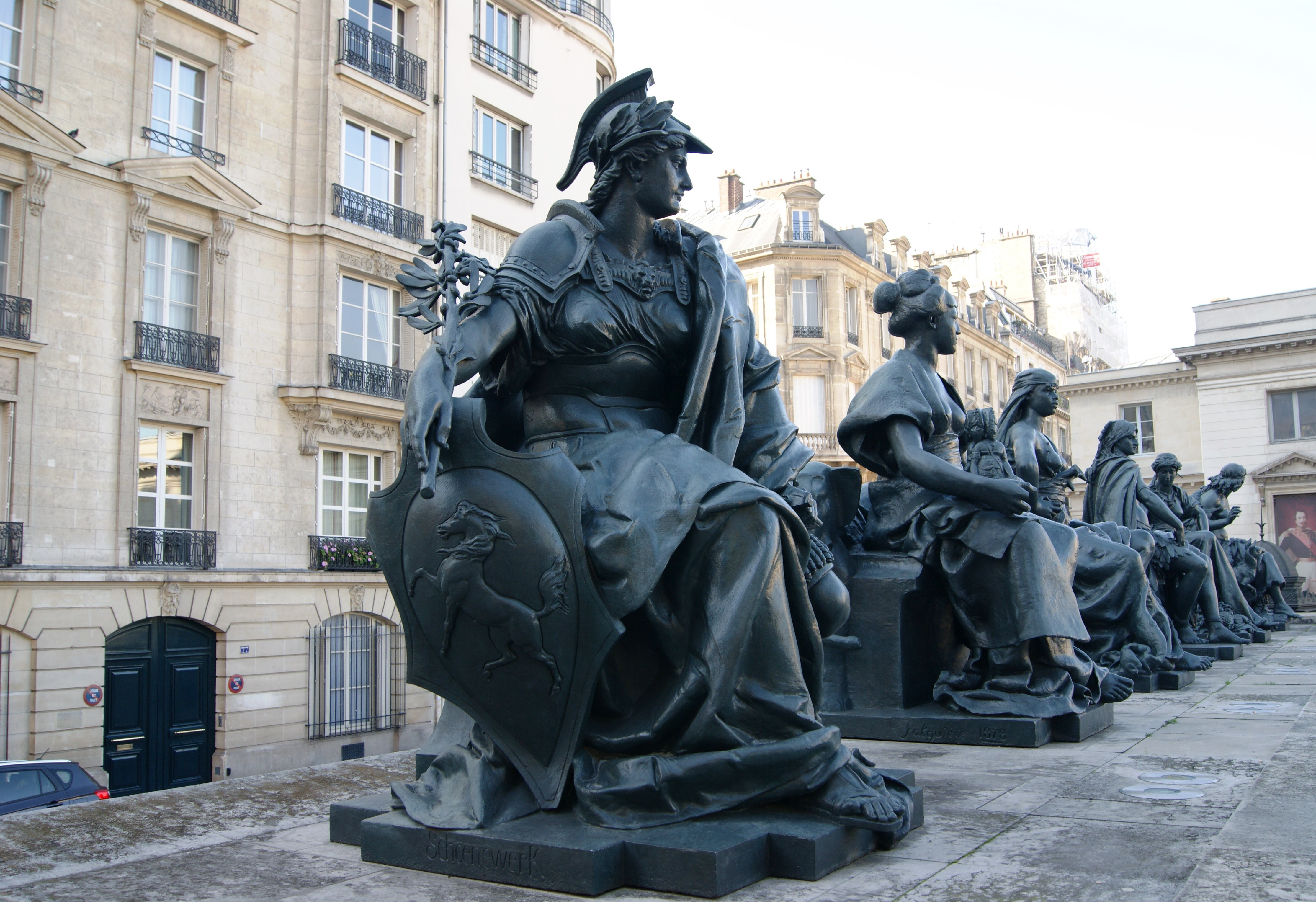 Statues à l'extérieur